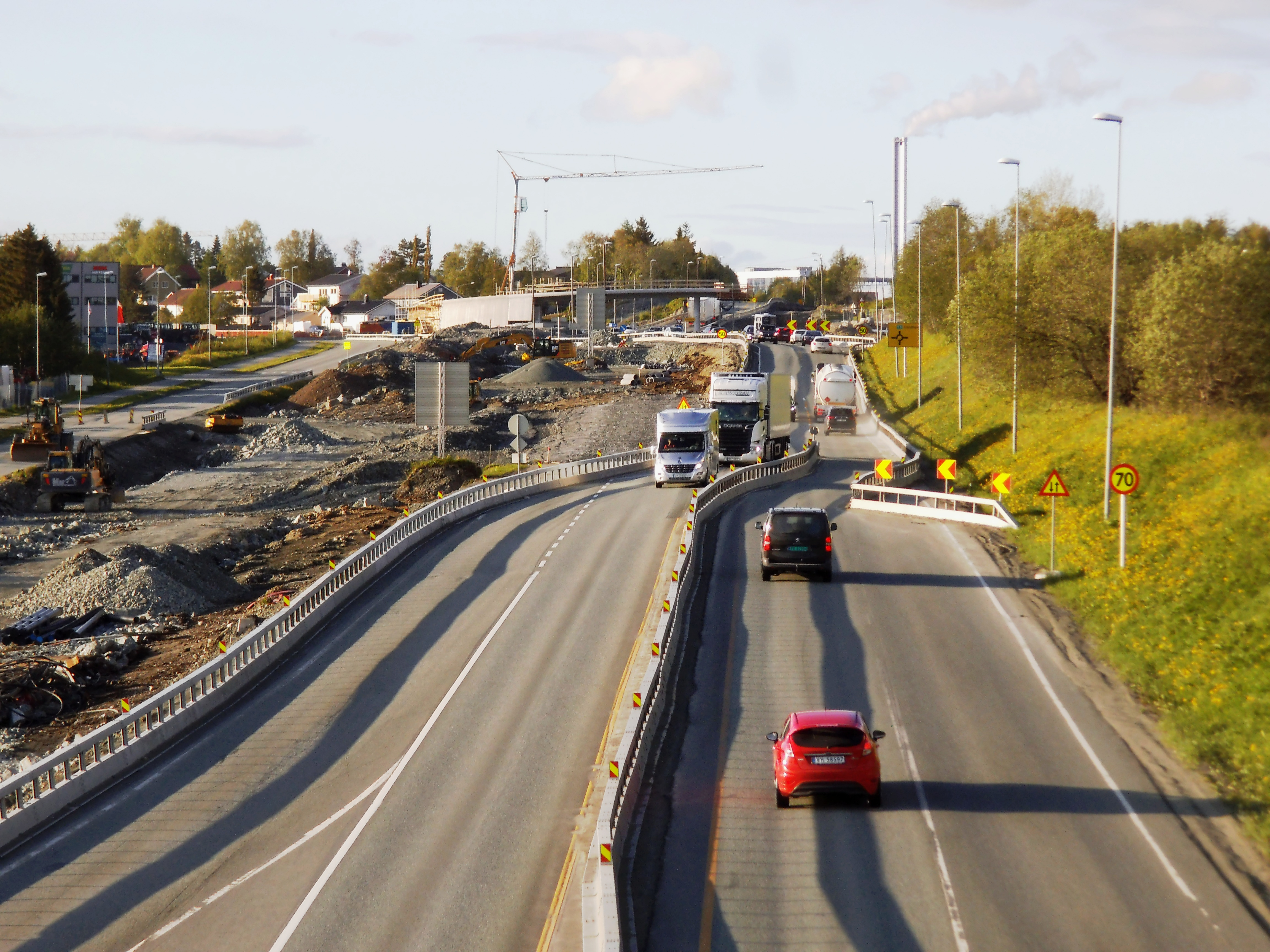 Construction of a new highway in Tiller, Trondheim.